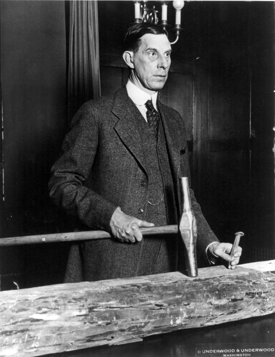 U.S. Secretary of the Interior Ray Lyman Wilbur holding silver spike railroad tie and hammer from Boulder Dam (Hoover Dam) construction scene